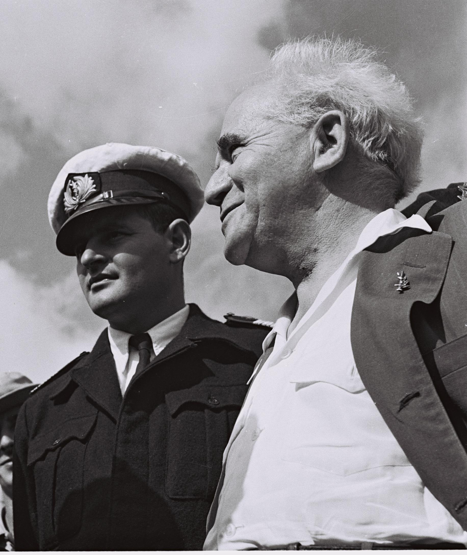 Mordechai Limon (left) with David Ben-Gurion